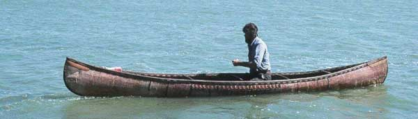 Photo © by Jeff Dean